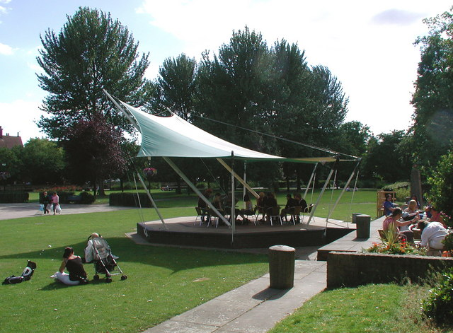 The Mick Ronson Memorial The Mick Ronson Memorial Stage in Queen's Gardens, Hull, erected in memory of the former mechanic and council park gardener turned minor rock god. Mick Ronson was born on Beverley Road, Hull in 1946 and grew up on Hull's Greatfield Estate. He became well known as a musician, arranger and producer and is perhaps best remembered as the guitarist in David Bowie's 'Ziggy Stardust and the Spiders From Mars'. He died of liver cancer on 29 April 1993 aged 46. The small, outdoor stage and refreshment hut close to Hull College have become a popular meeting place for teenagers in recent years. There's usually a peaceful, relaxed atmosphere here - only a few yards away from the entrance to the city's central police station.